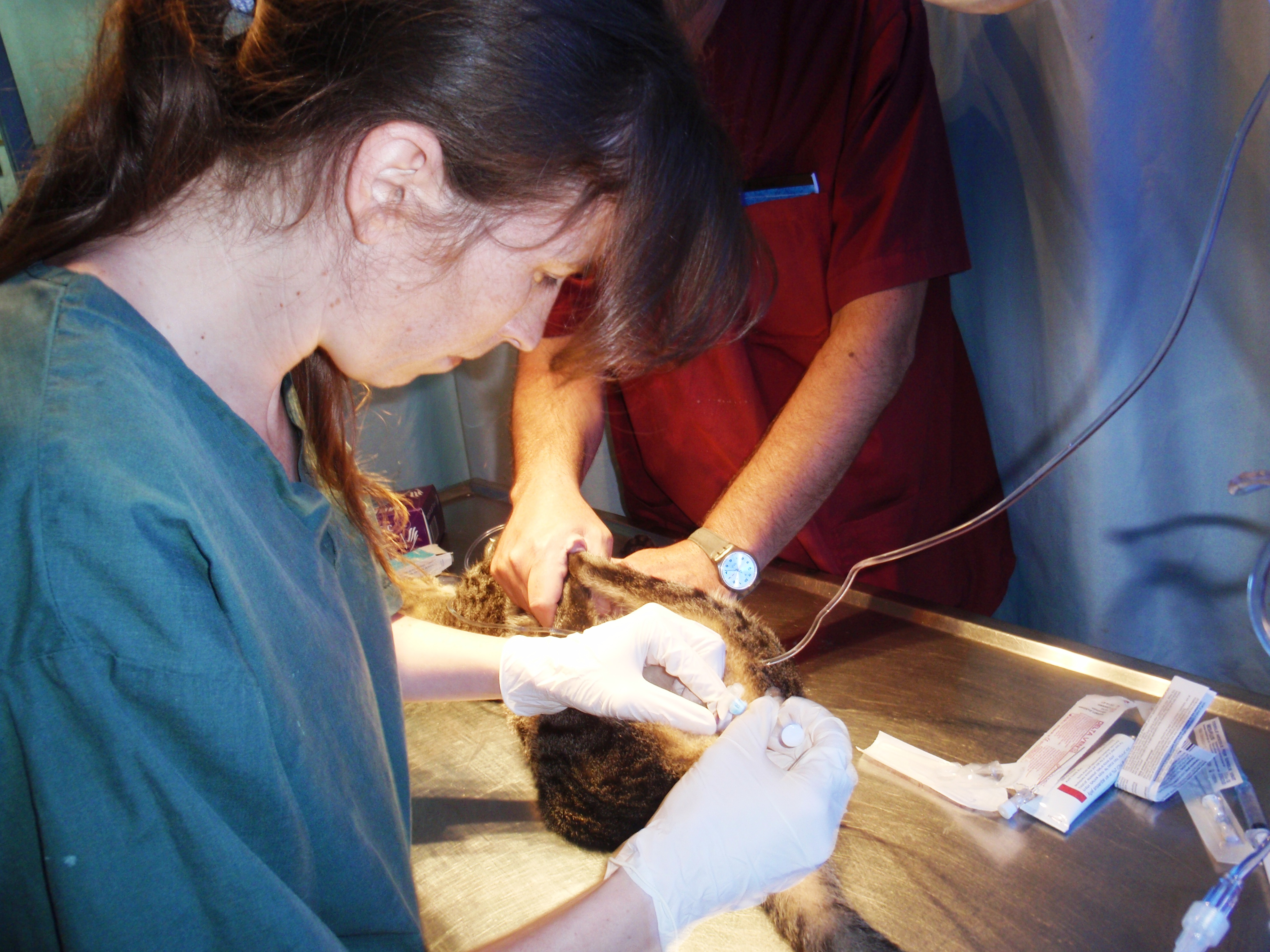 Veterinary Hospital